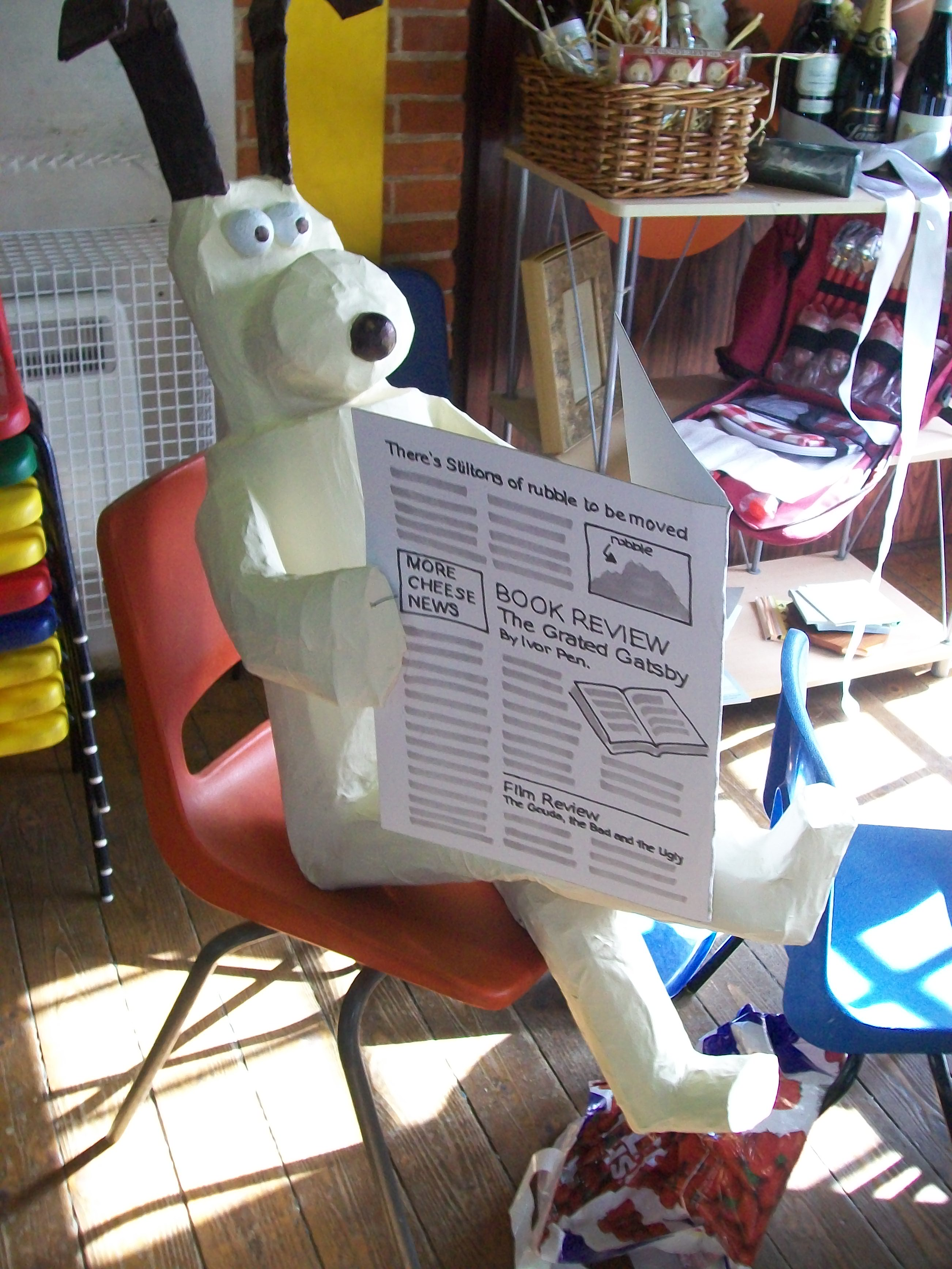 Scarecrow No. 1, Gromit out of the popular british childrens television show, Wallace and Gromit